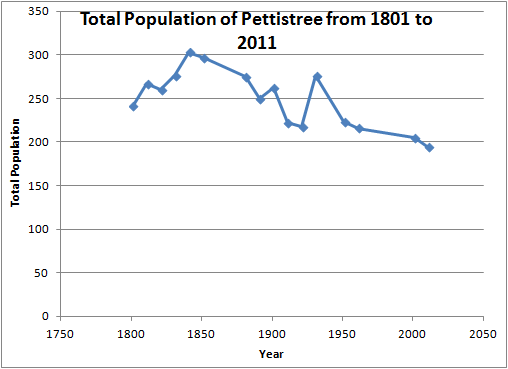 Total Population graph of Pettistree from 1801 to 2011